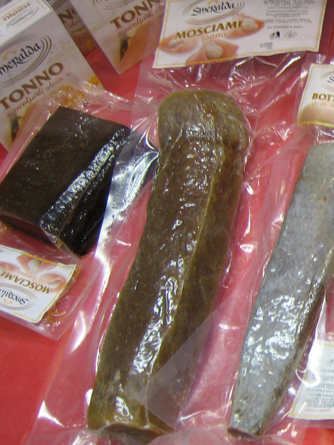 Left and centre: Italian tuna-fish musciame ("musciame di tonno") at the Fancy Food Show 2007 in the United States.